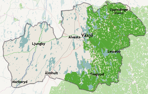 A map where Kronoberg County has been highlighted together with its municipal centres. The county is evenly forested, which may make the map colours seem somewhat confusing. This map of Kronoberg was created from OpenStreetMap project data, collected by the community. This map may be incomplete, and may contain errors. Don't rely solely on it for navigation.